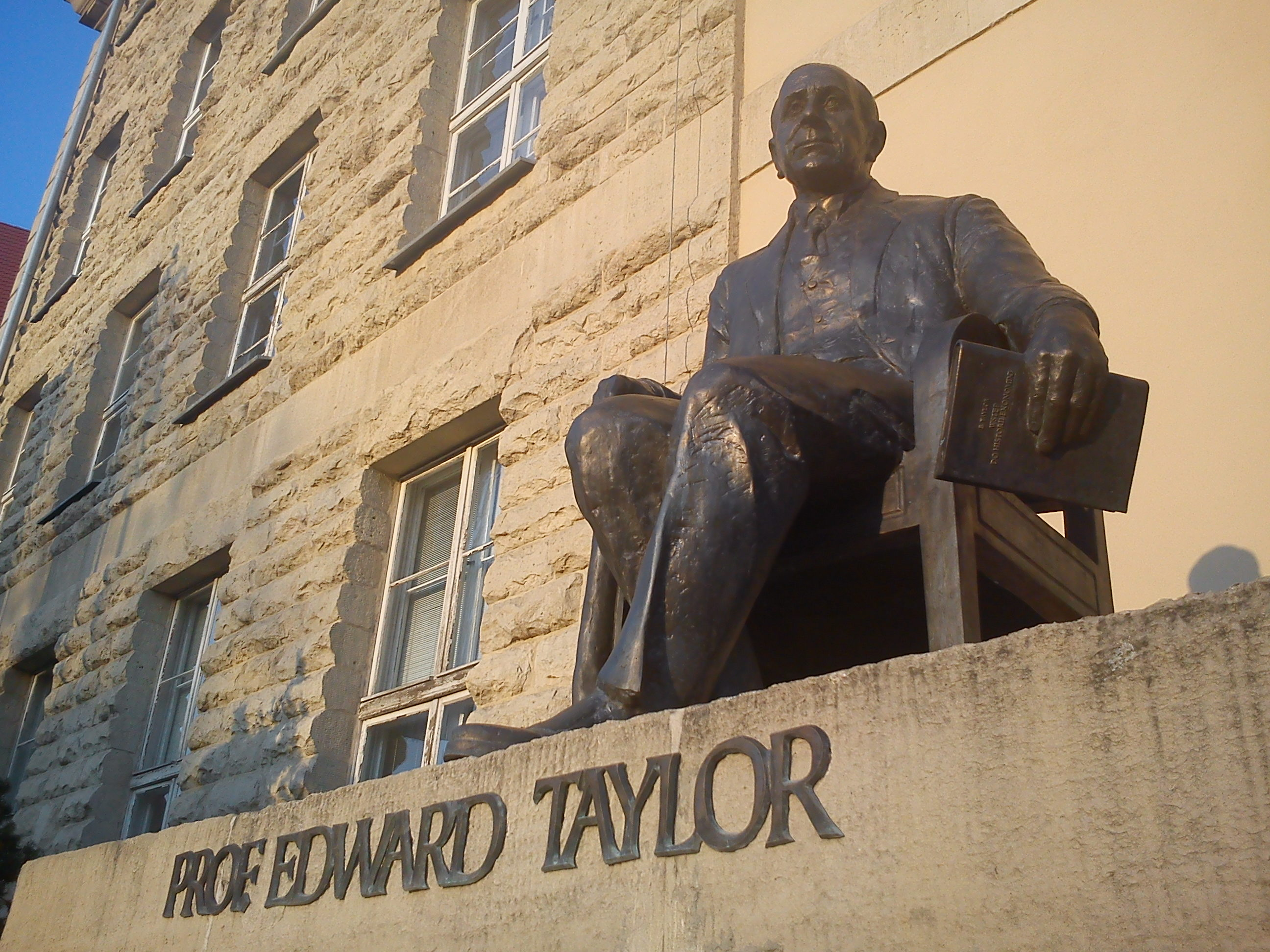 Monument of Edward Taylor, Poznań, University of Economics. Niepodległości Av.